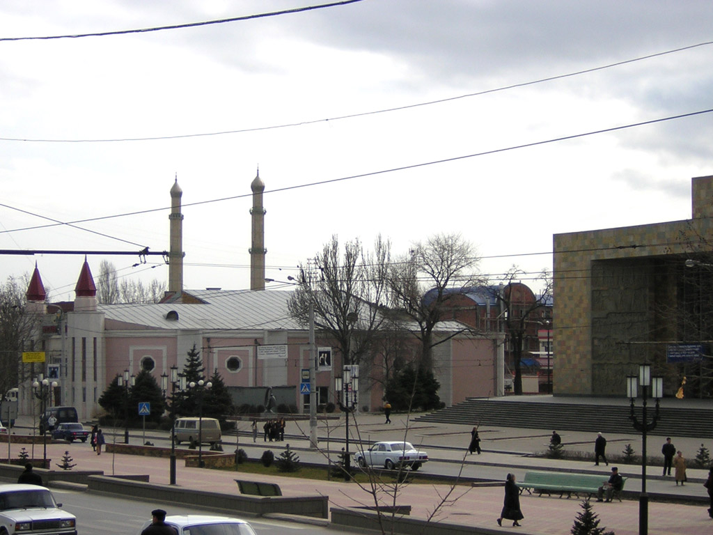 Makhachkala - capital of Dagestan